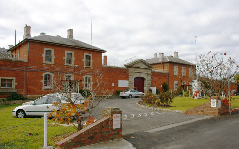 The former HM Prison Bendigo.